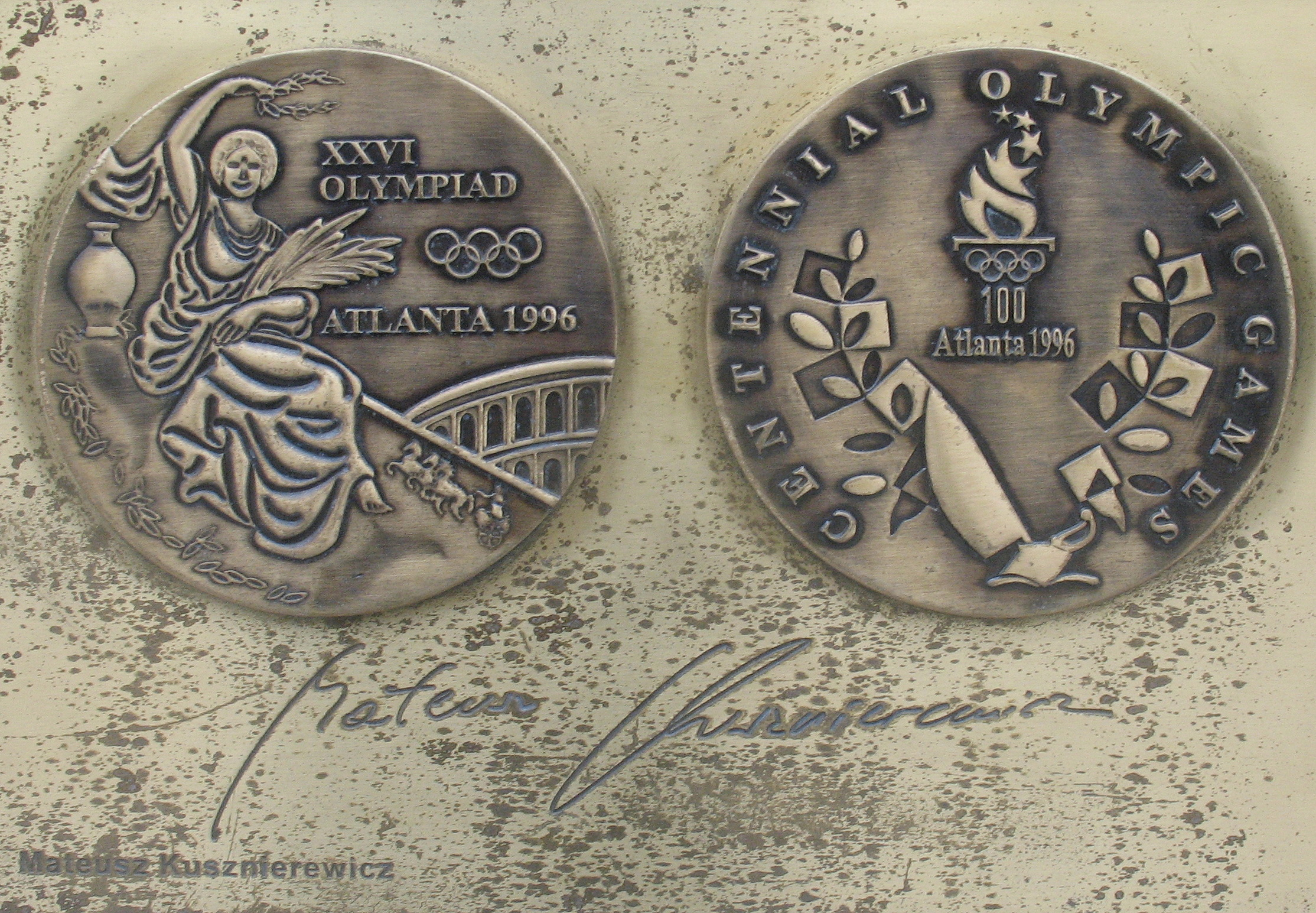 Mateusz Kusznierewicz medal & autograph in Avenue of Sport Stars Dziwnów